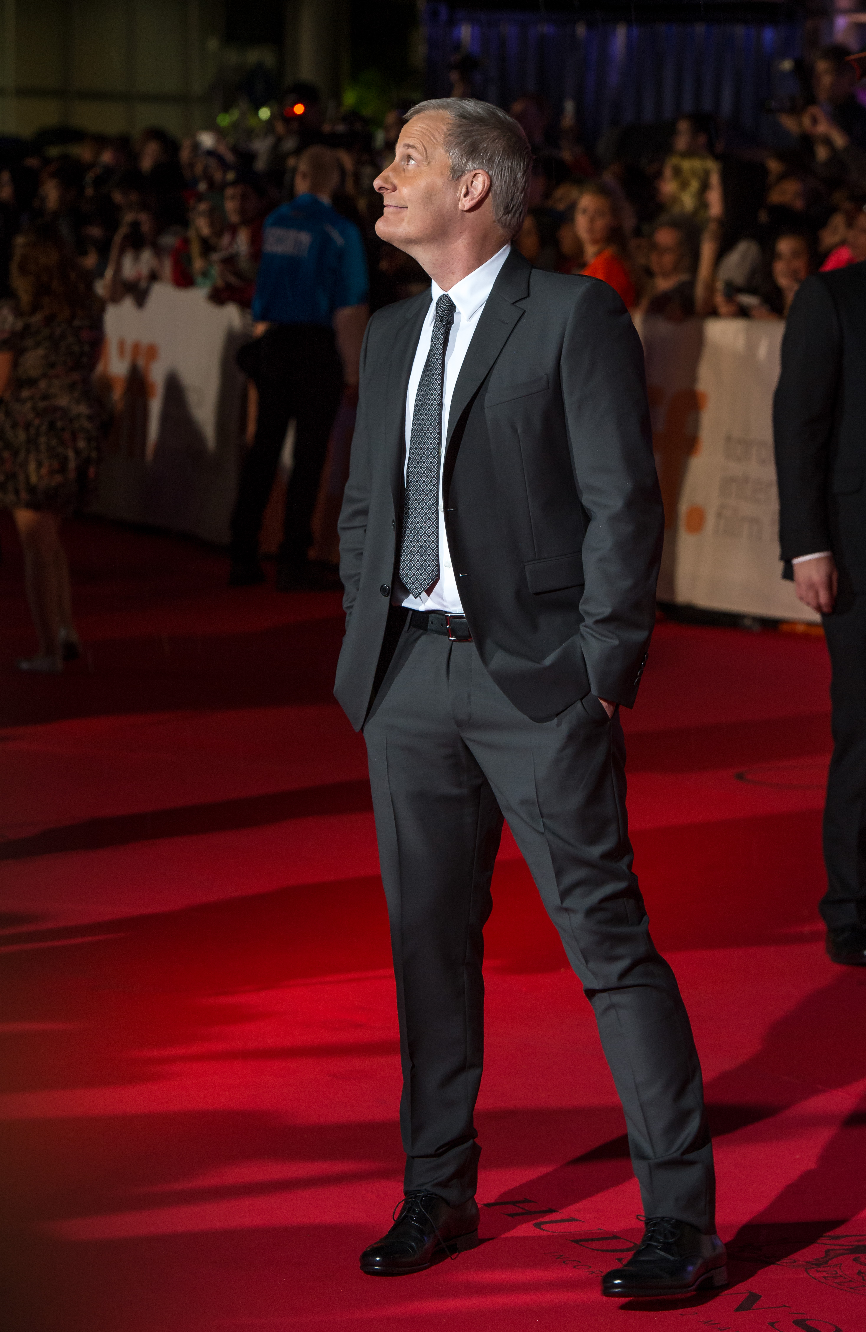 Actor Jeff Daniels attends the world premiere for "The Martian” on day two of the Toronto International Film Festival at the Roy Thomson Hall, Friday, Sept. 11, 2015 in Toronto. NASA scientists and engineers served as technical consultants on the film. The movie portrays a realistic view of the climate and topography of Mars, based on NASA data, and some of the challenges NASA faces as we prepare for human exploration of the Red Planet in the 2030s.